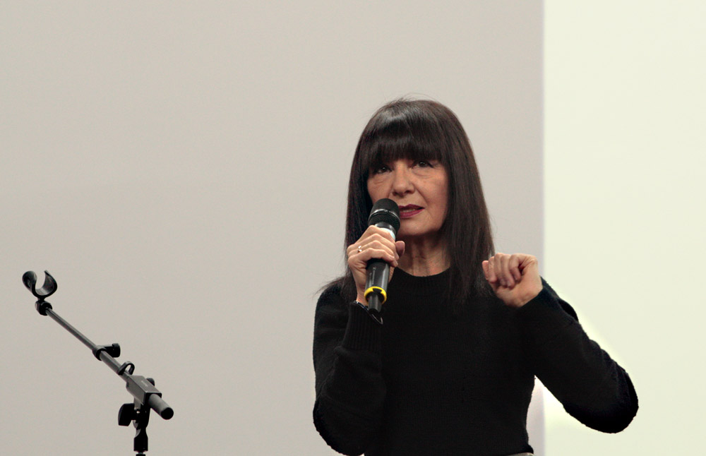 Roselee Goldberg - American art-historian, curator. Moscow, 2013